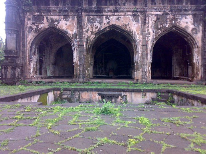 A Mosque